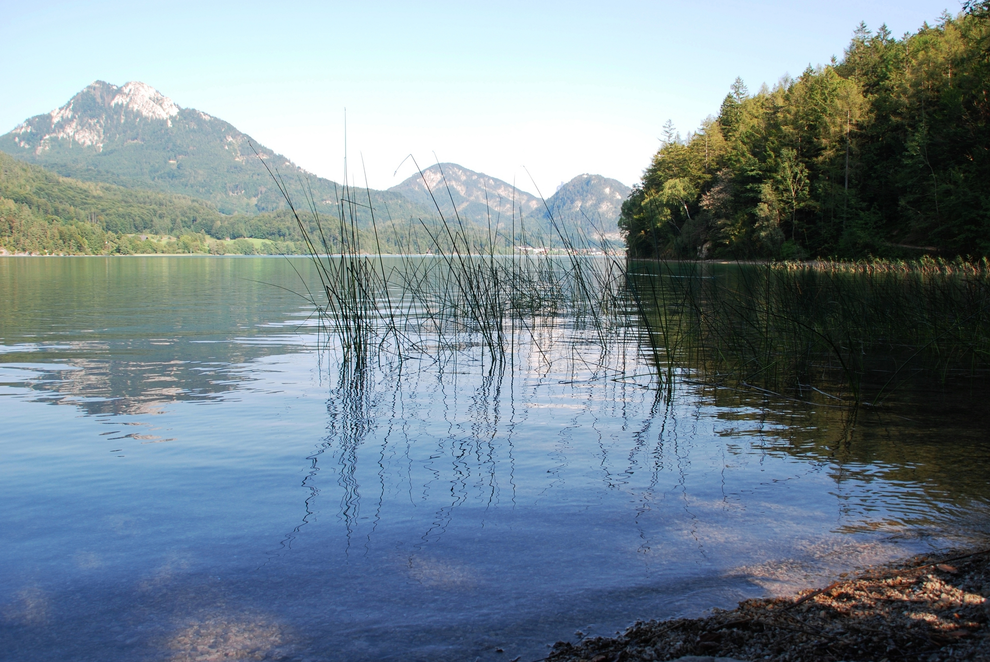 Lake Fuschlsee in Salzburg, Austria